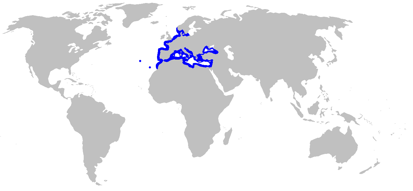 Distribution of the common stingray (Dasyatis pastinaca). Based on [1]